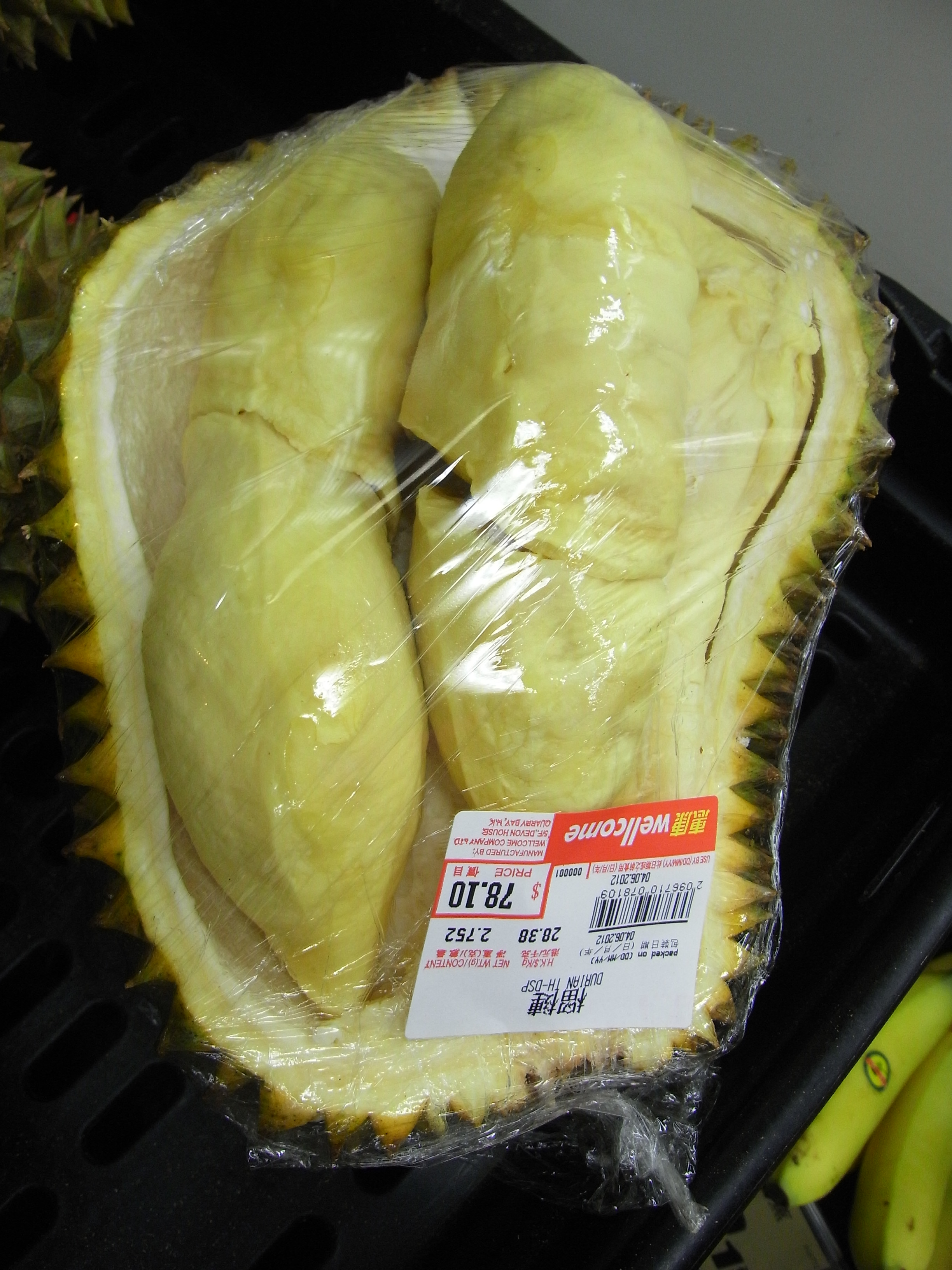 榴槤, Durian